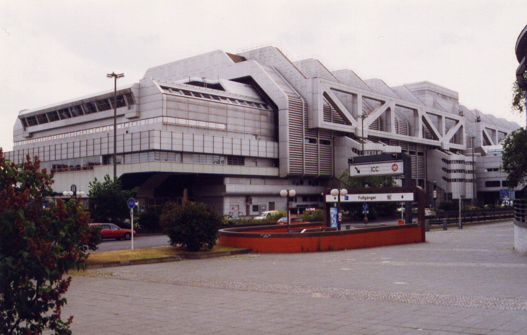 The International Congress Centre (ICC) in Berlin